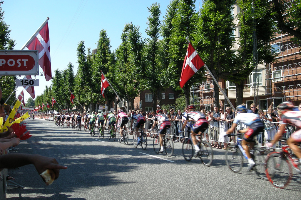 The final stage of the Danish cycling race Post Danmark Rundt (Tour of Denmark) at Frederiksberg Allé, the Champs-Élysées of Copenhagen.